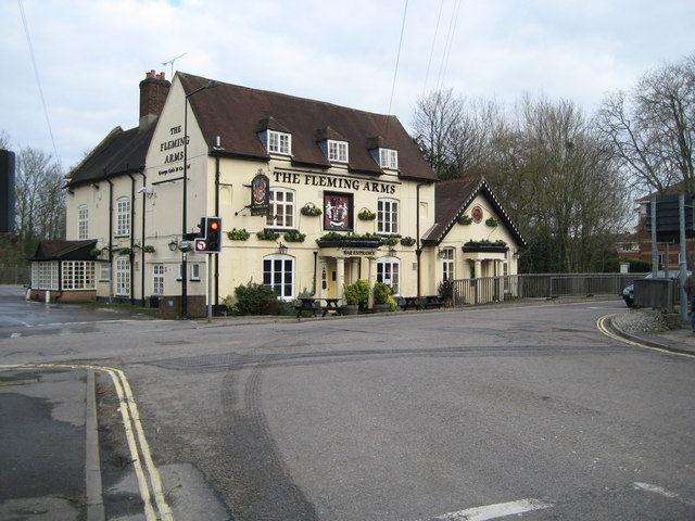 Swaythling: The Fleming Arms (listed as 1340001)